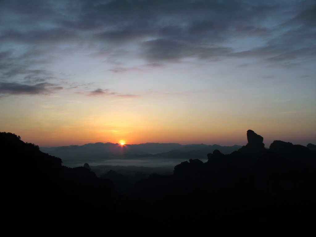 Danxia Sunrise(Danxia Mountain）